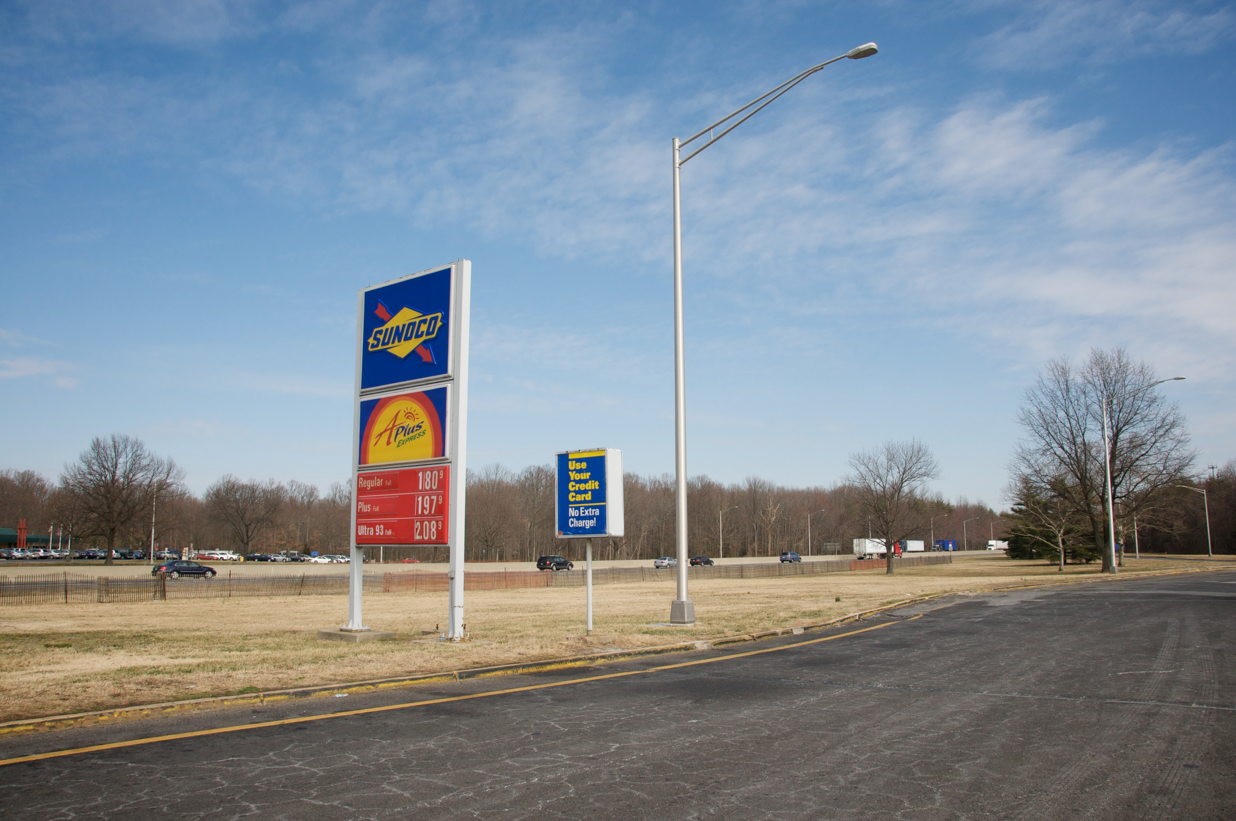 En route from Washington DC to New York at John Fenwick Service Area along the New Jersey Turnpike in Salem County.